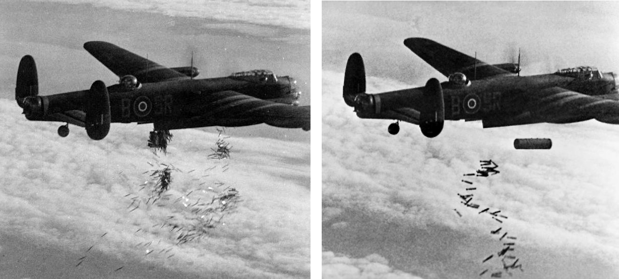 A Royal Air Force Avro Lancaster I (s/n NG128, coded "SR-B") of No. 101 Sqn out of Ludford Magna and flown by Fg Off R.B. Tibbs as part of a thousand-bomber raid, dropping its load over Duisburg, Germany, on 14-15 October 1944. Note the large aerials on top of the Lancaster´s fuselage, indicating that the aricraft is carrying 'Airborne Cigar' (ABC), a jamming device which disrupted enemy radio telephone channels. Over 2,000 sorties were dispatched to the city of Duisburg during 14-15 October 1944, in order to to demonstrate the RAF Bomber Command's overwhelming superiority in German skies ("Operation Hurricane"). Left image: the Lancaster releases bundles of 'Window' over the target during a special daylight raid on Duisburg. Right image: a fraction of a second later, the aircraft releases the main part of its load, a 4000lb HC "cookie" and 108 30lb "J" incendiaries.